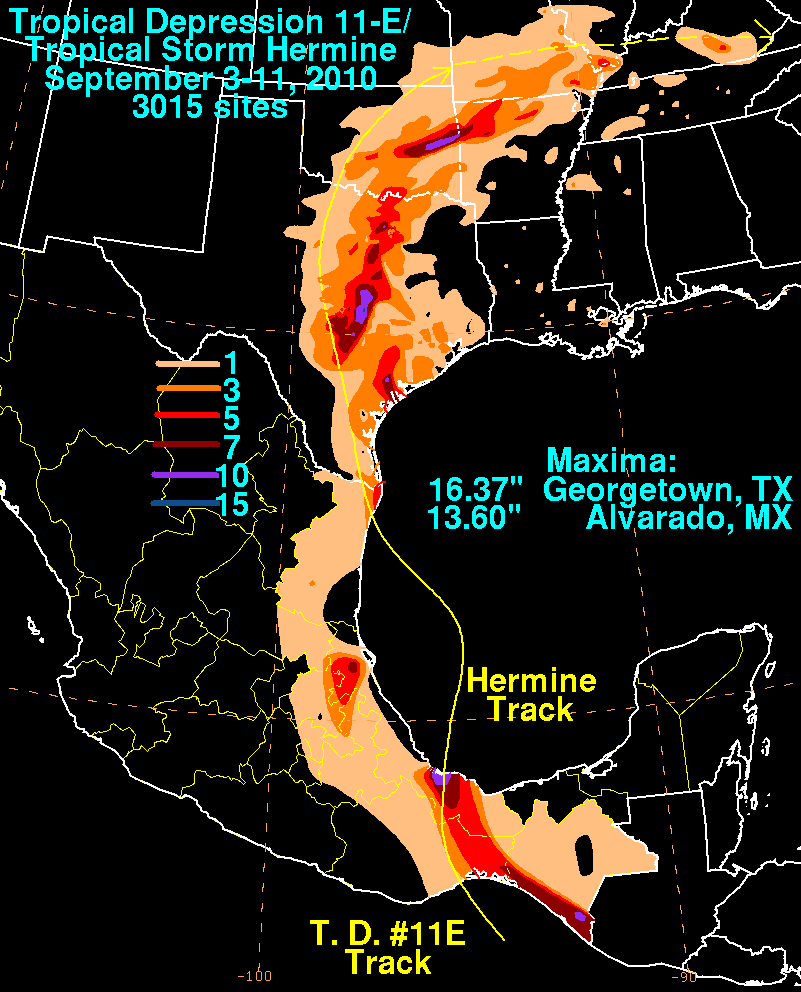 Rainfall produced by Tropical Storm Hermine during September 2010.